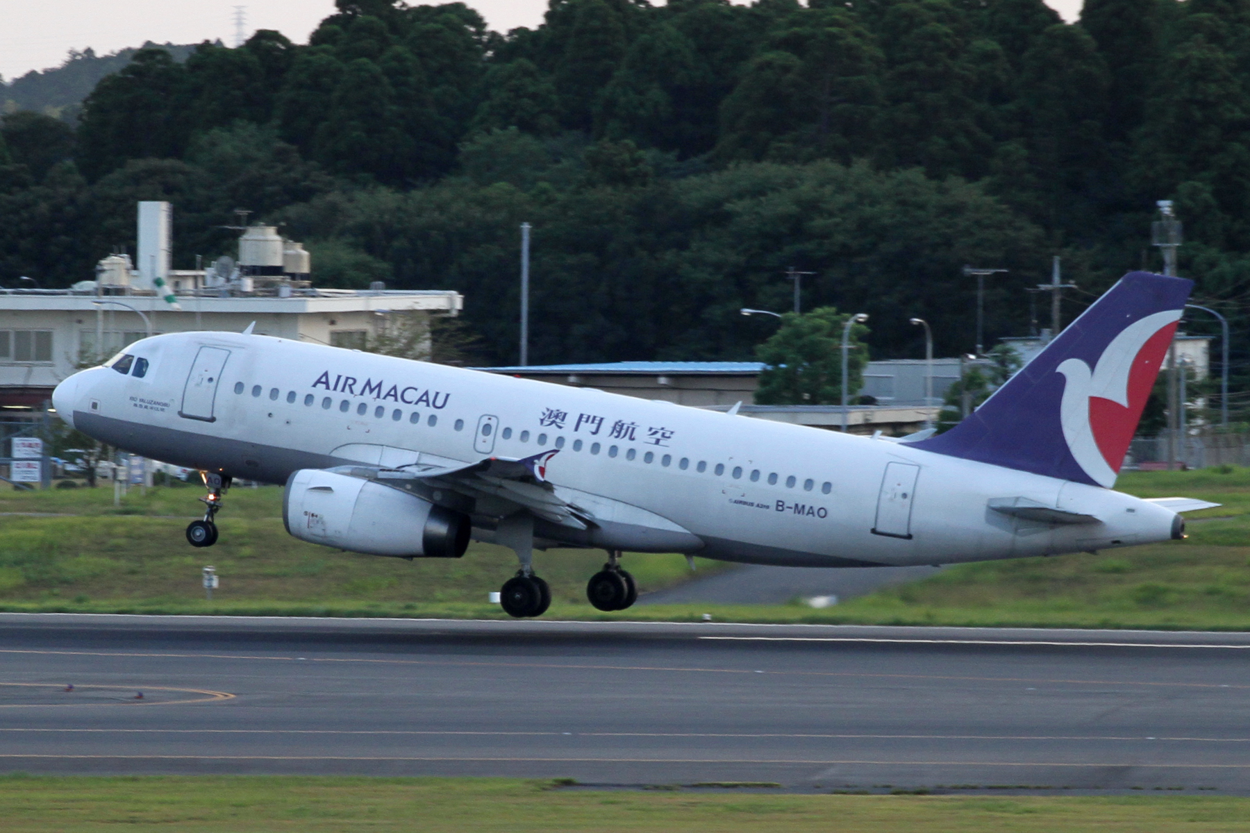 Narita International Airport, Airbus A319-132, c/n:1962, Air Macau